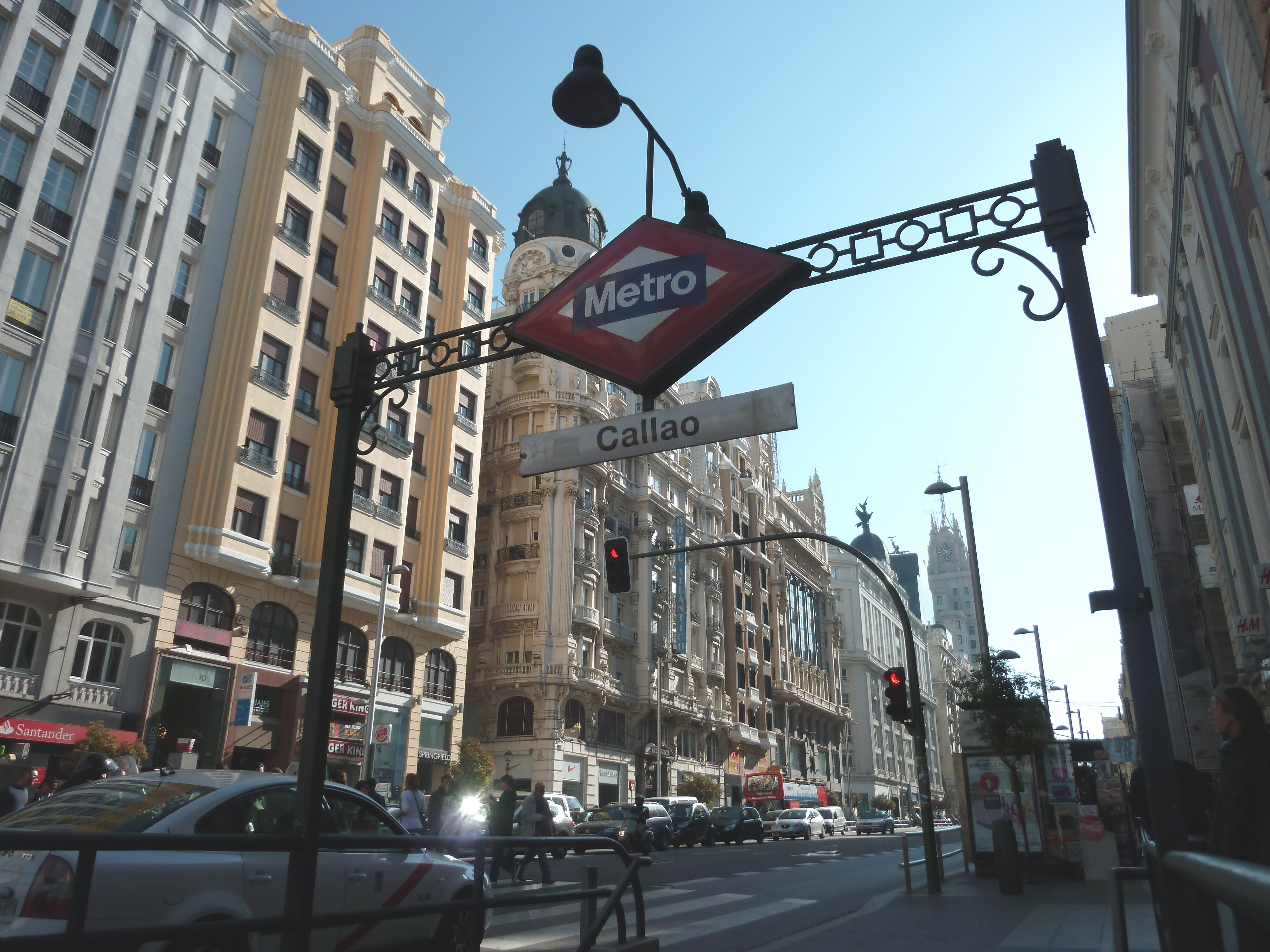 Entrance of Callao metro station in Madrid (Spain). Background: Gran Vía (avenue).